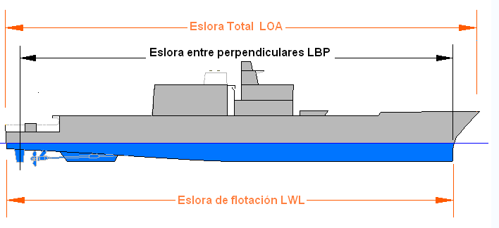 ships length (spanish)